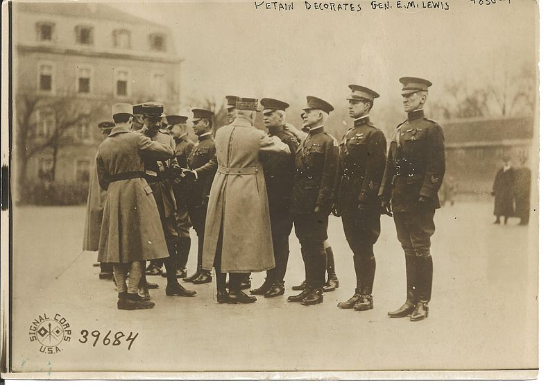 Marshall Petain of France decorates Major General Edward Mann Lewis with the Legion of Honor in WWI